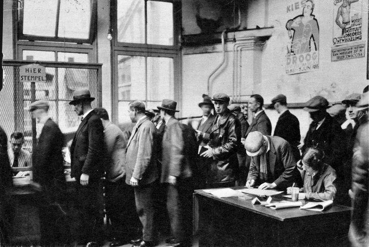 You can help us gain more knowledge on the content of our collection by simply adding a comment with information. If you do not wish to log in, you can write an e-mail to